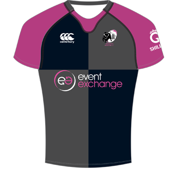 2017/18 Kit